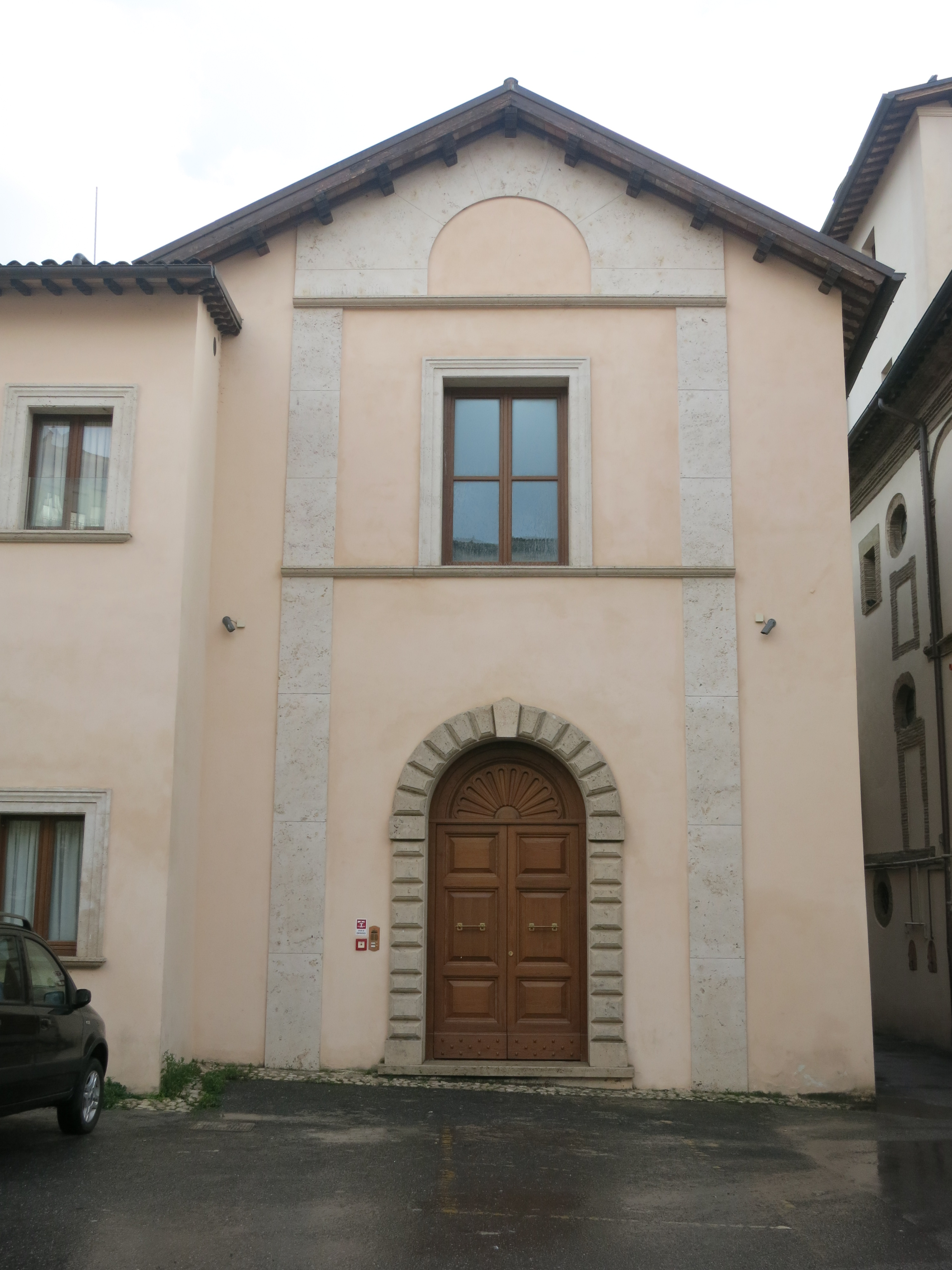 Former Saint George church - Rieti, Lazio, Italy